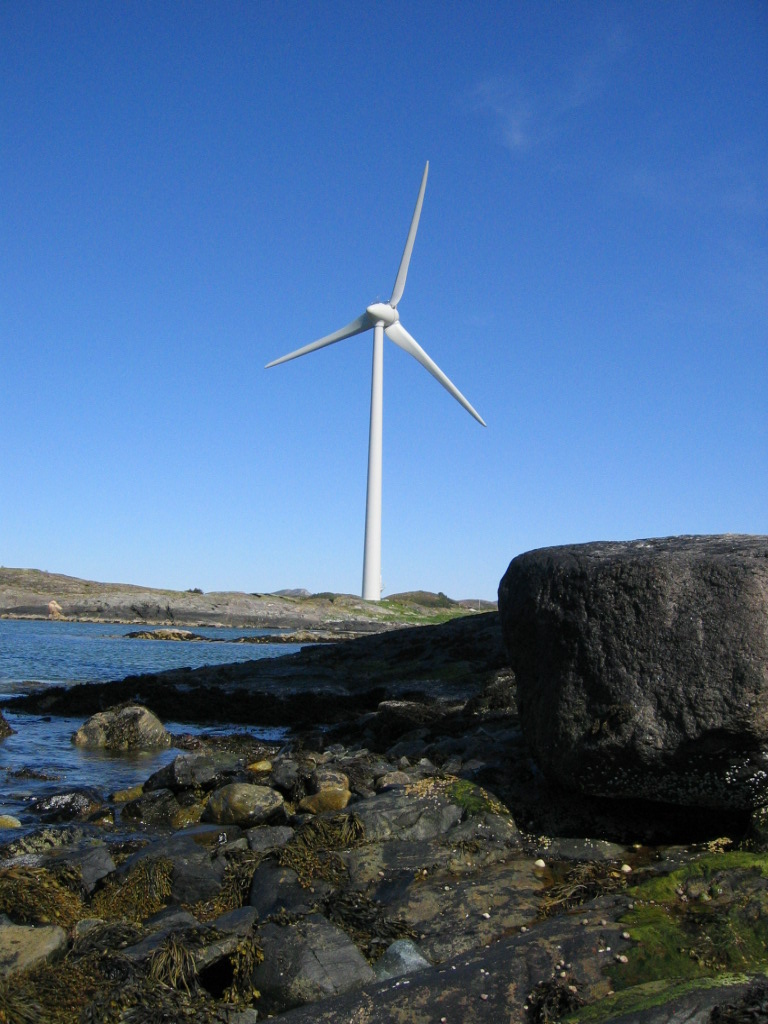 Enercon E-70 wind turbine at Valsneset wind farm, Fosen, Norway